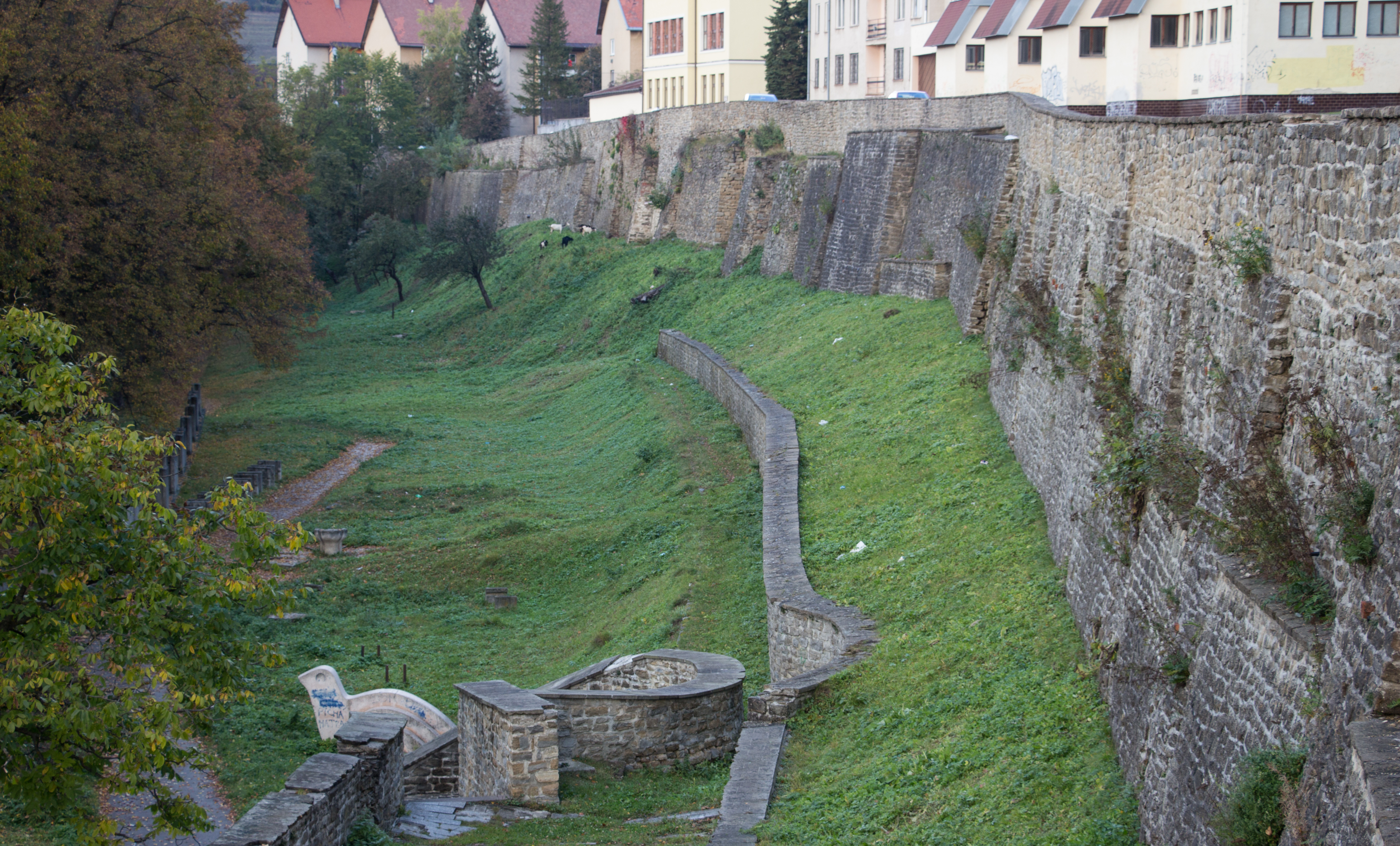 City wall. Levoča, Slovakia